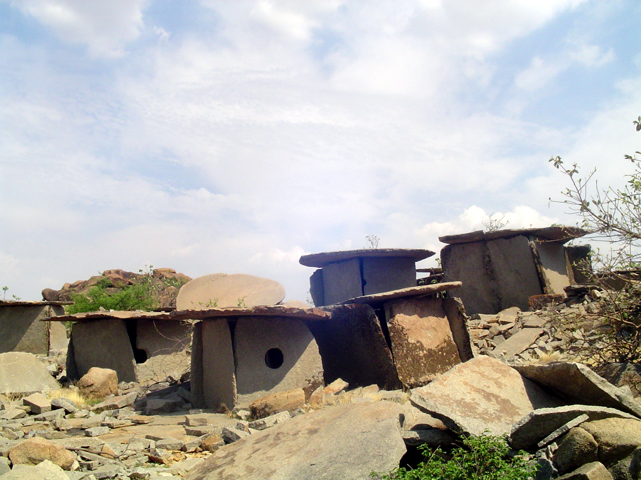 tombe at Pre-historic site, hire benakal